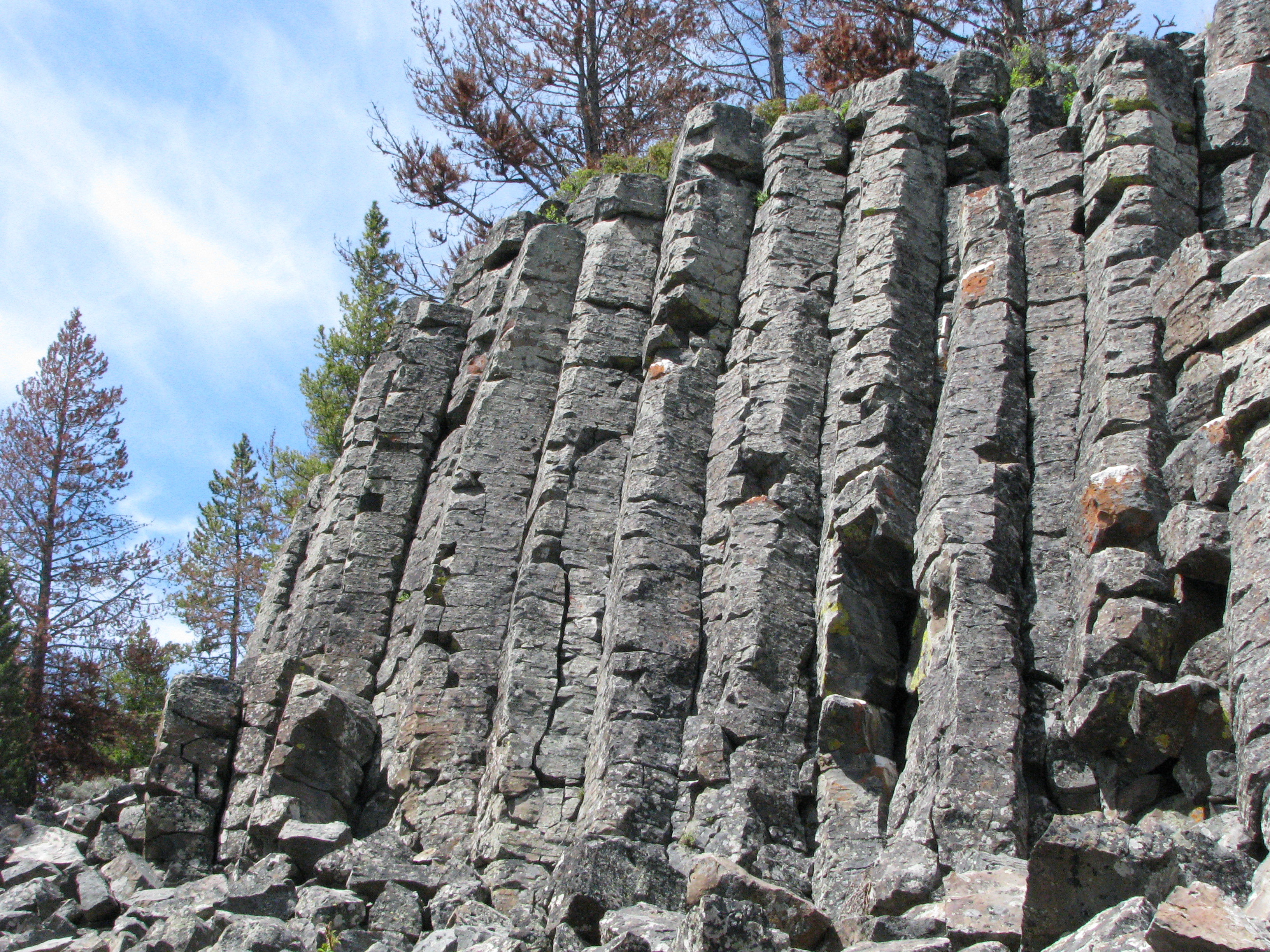 Columnar basalt cliff formed by rapidly cooling lava. Named after the Sheepeater Indians, a band of Western Shoshone Native Americans. In Yellowstone National Park south of Mammoth Hot Springs.